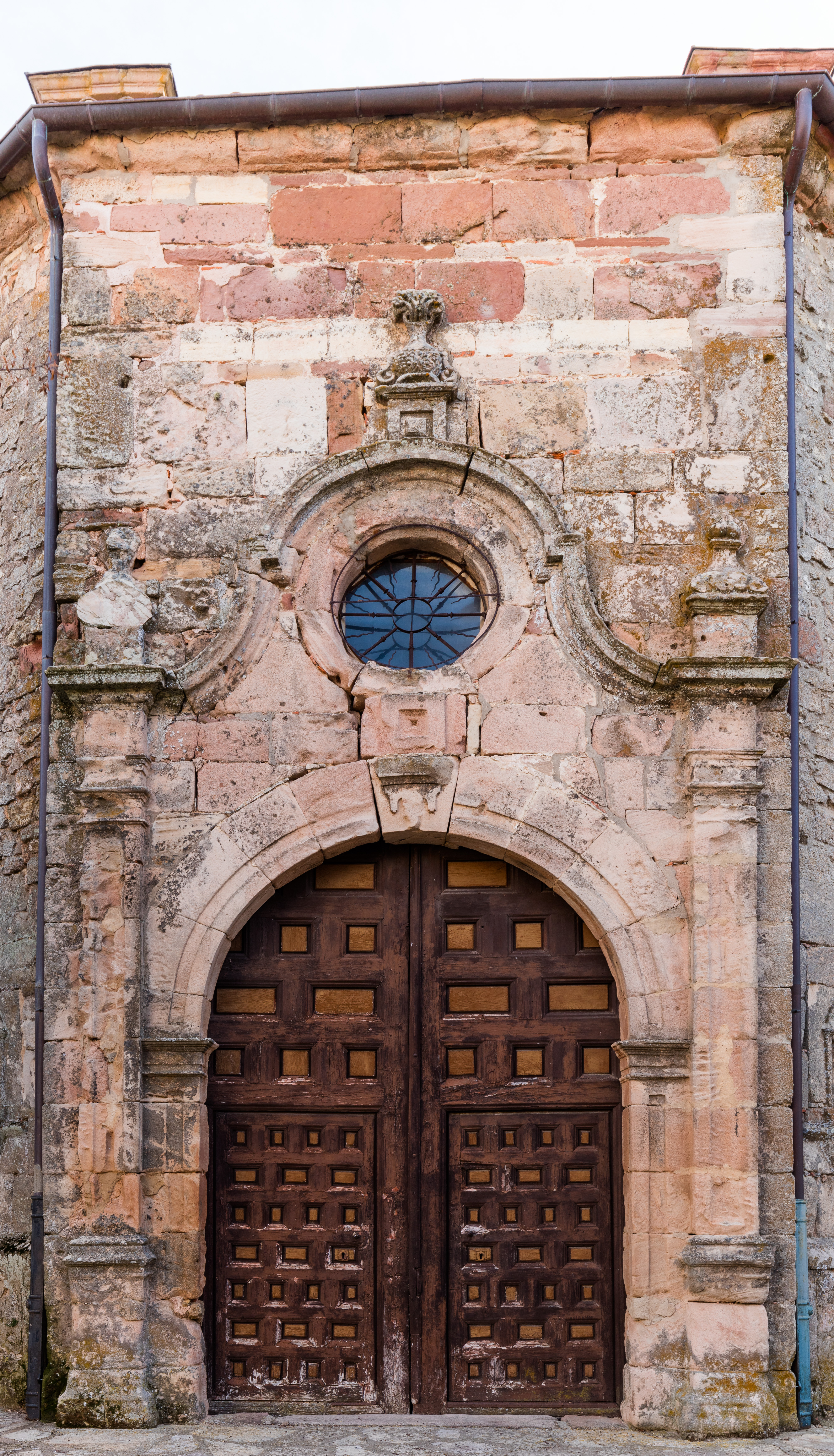 Colegiate, Medinaceli, Soria, Spain